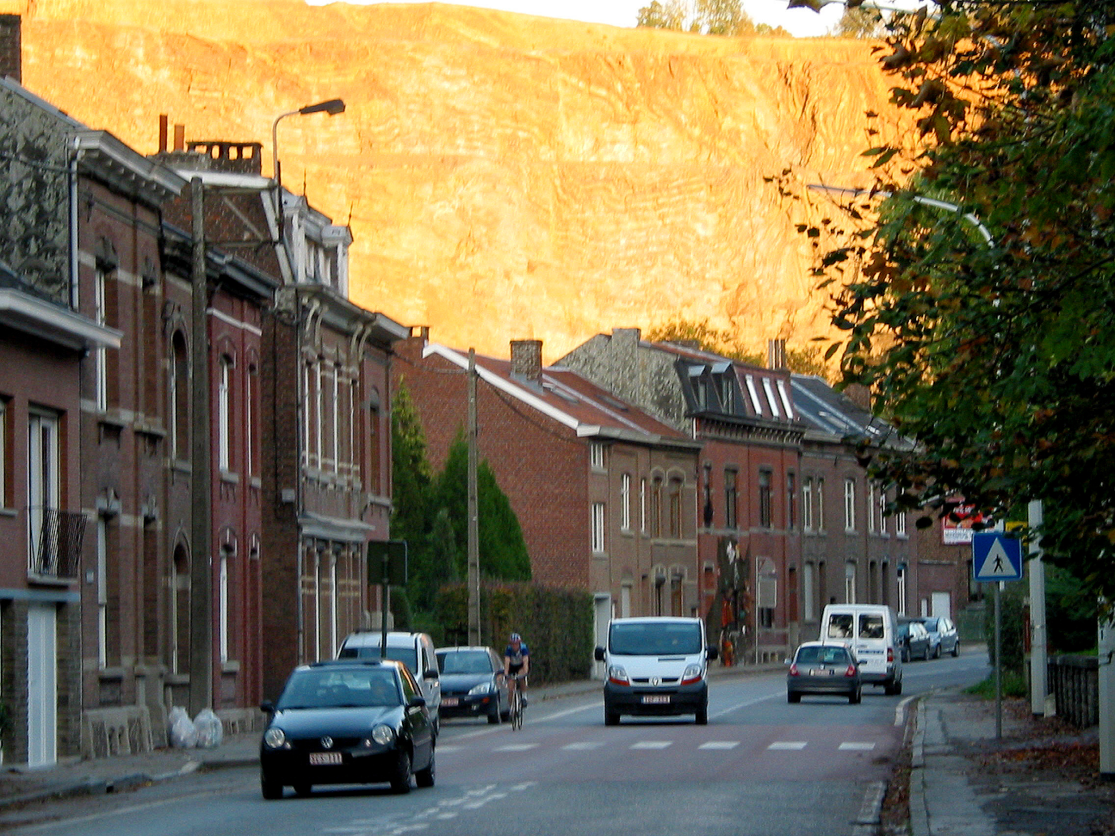 Trooz (Belgium), sunset on the stone career.